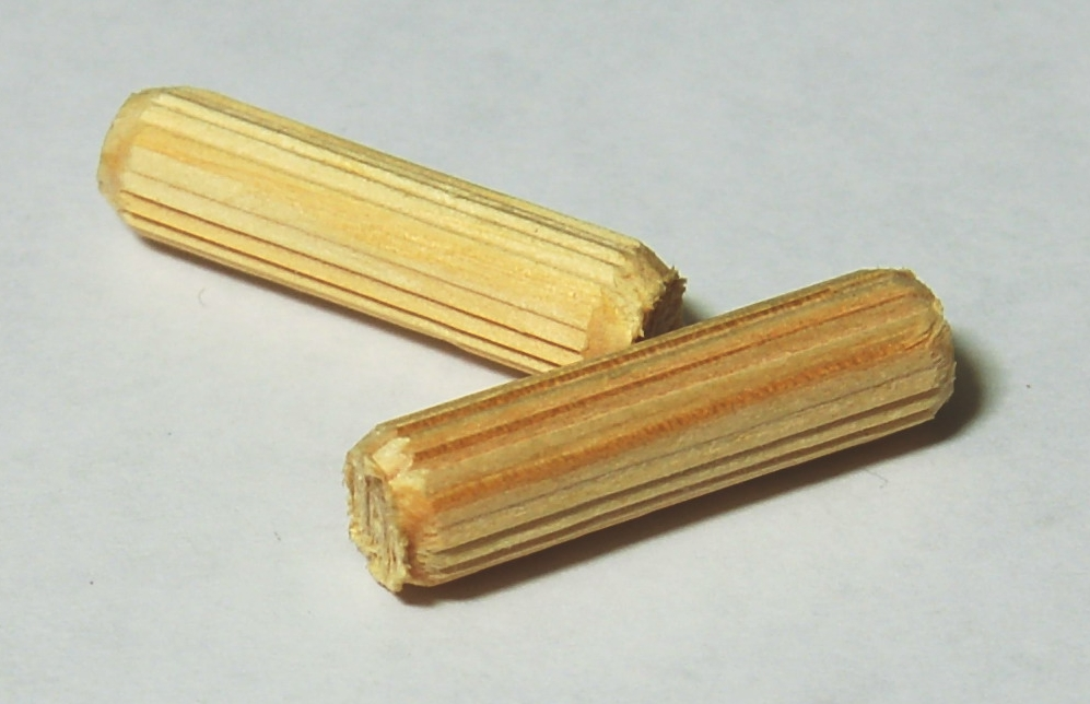 Fluted wood dowels